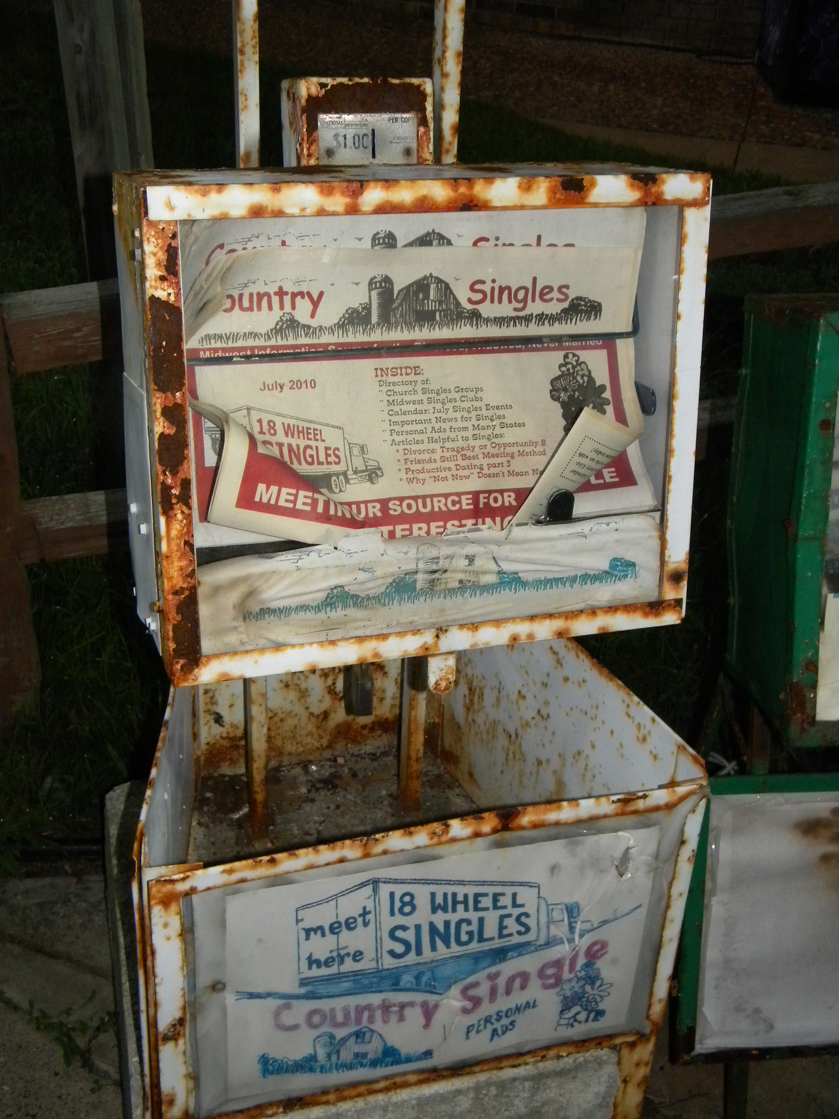 Photograph of Jacobsen Publishing newspaper box, for the personals ad newspaper Country Singles